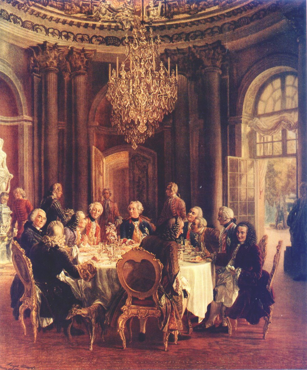 Voltaire to the left.